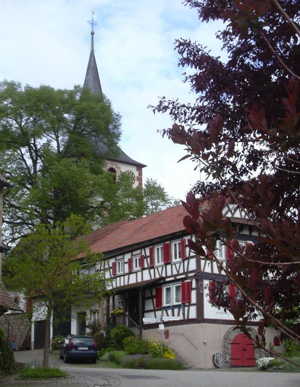 Center of Diefenbach, Germany